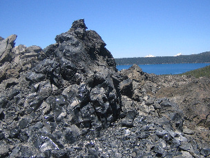 Pile of obsidian glass on the big obsidian flow in the Newberry Volcanic caldera. Mount Bachelor and South Sister in the background.